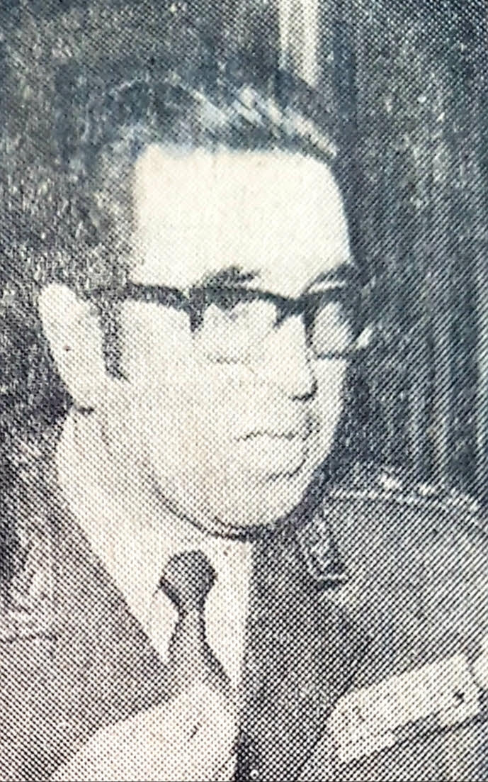 Photo portrait of general Milan Knežević, published in an as yet unidentified Serbian newspaper, Belgrade, 1976.